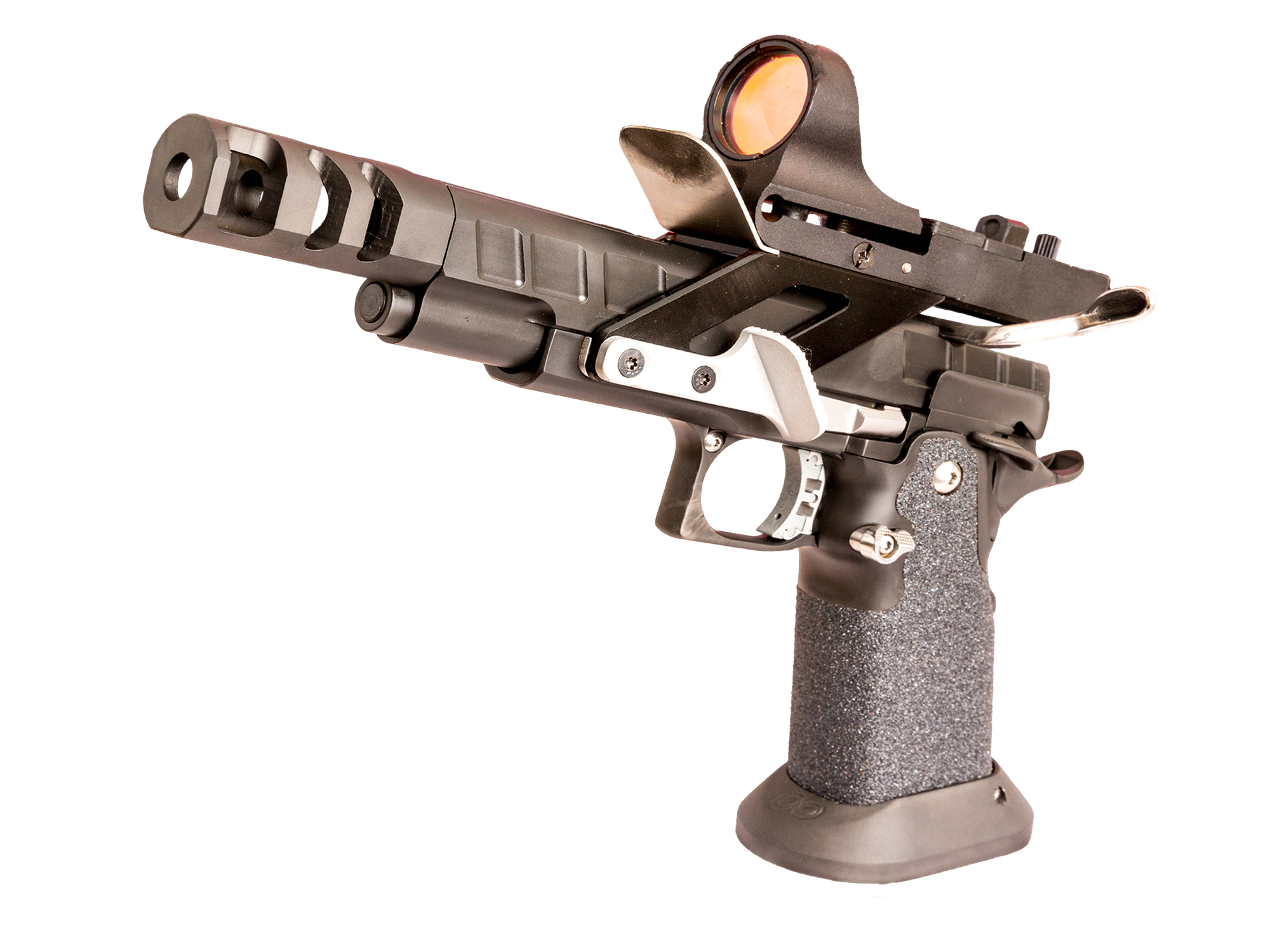 2011 type handgun with red dot, compensator, thumb rest, slide racker and magwell